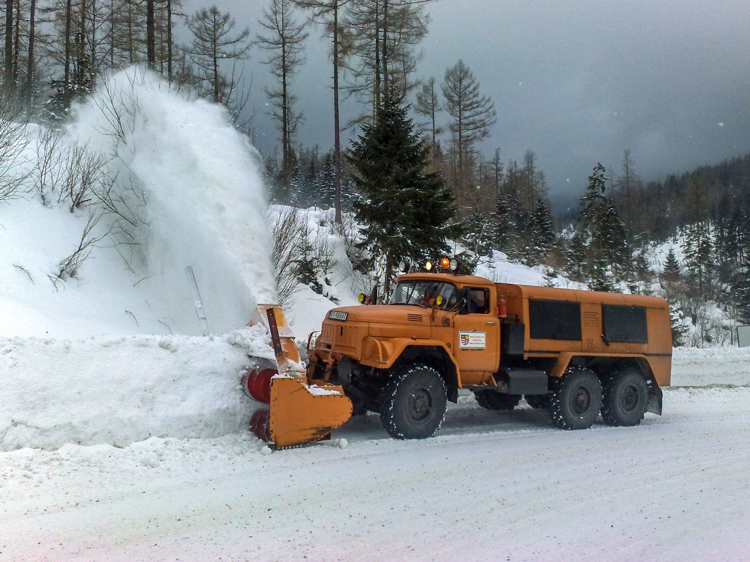 Snow blower ZIL 131